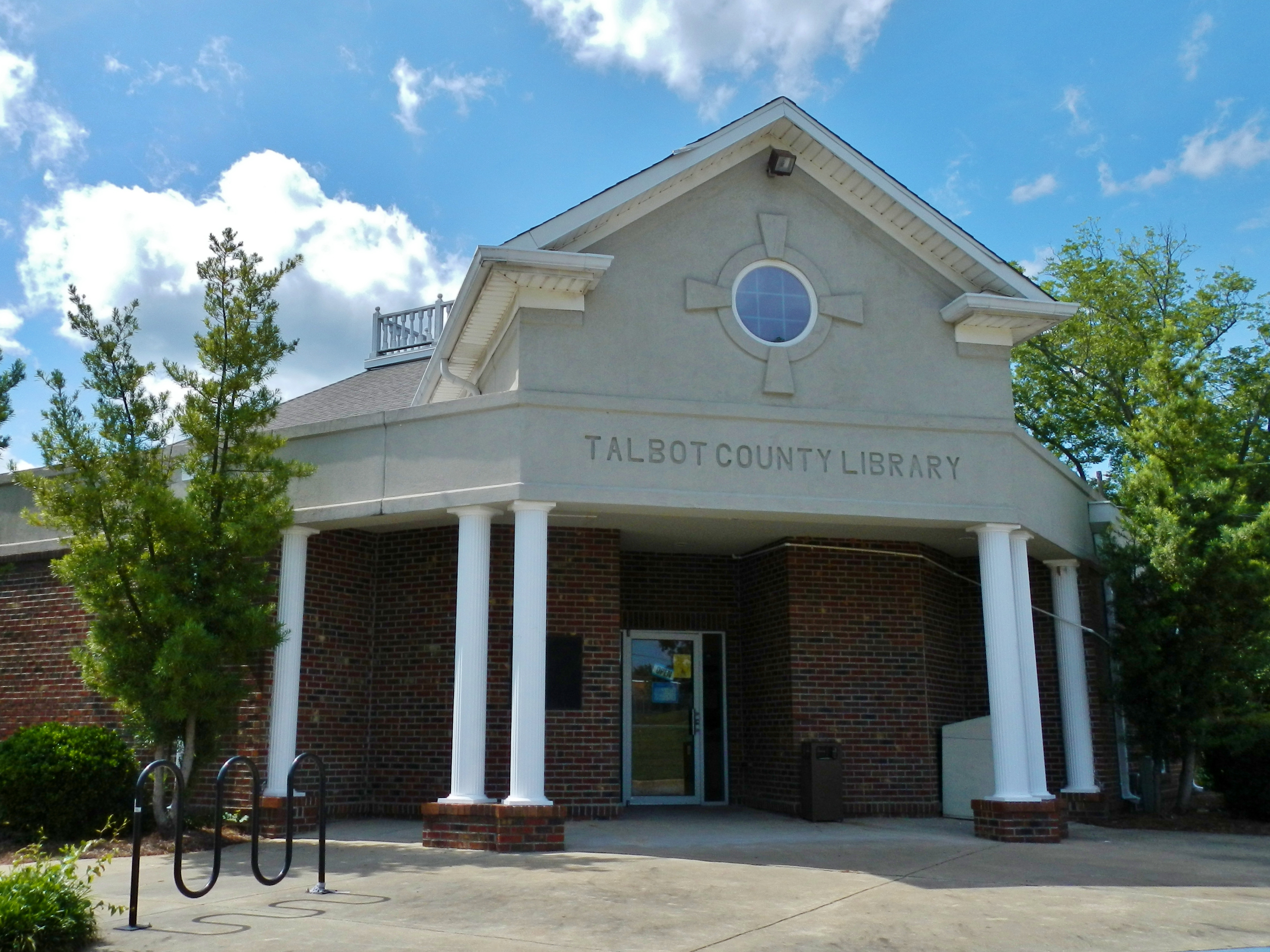 This is a photo of the Talbot County Public Library in Talbotton, Georgia.